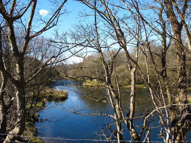 Afon Rhythallt. Afon Rhythallt immediately below Pontrhythallt Bridge